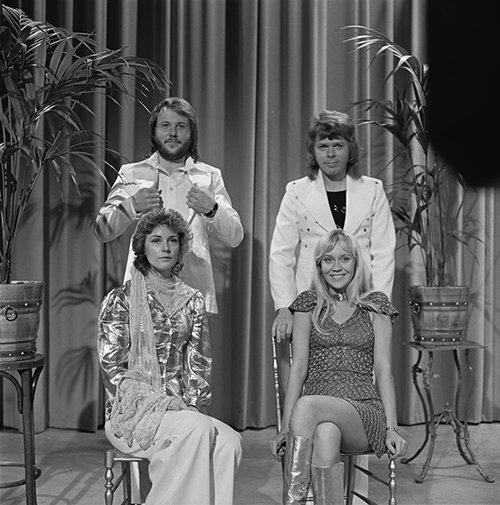 ABBA in AVRO's TopPop (Dutch television show) in 1974